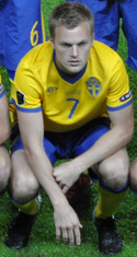 Sebastian Larsson (Sweden) before the UEFA Euro 2012 qualifying match against San Marino on September 7, 2010